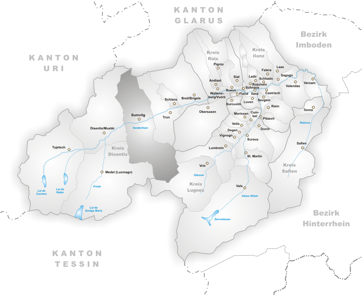 Municipality Sumvitg